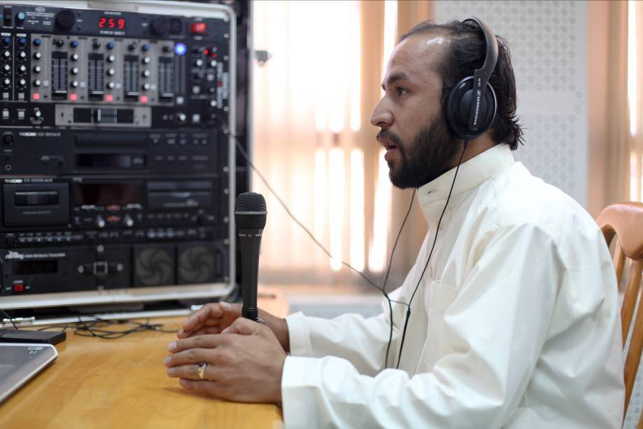 VIRIN: 090929-A-6365W-021 Abeds, an Afghan local radio personality for the Voice of Maiden, conducts his radio show in the Wardak province of Afghanistan on 29 Sept. 2009.